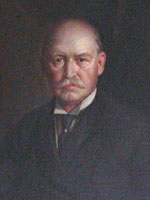 William Lewis Douglas (1845-1924)